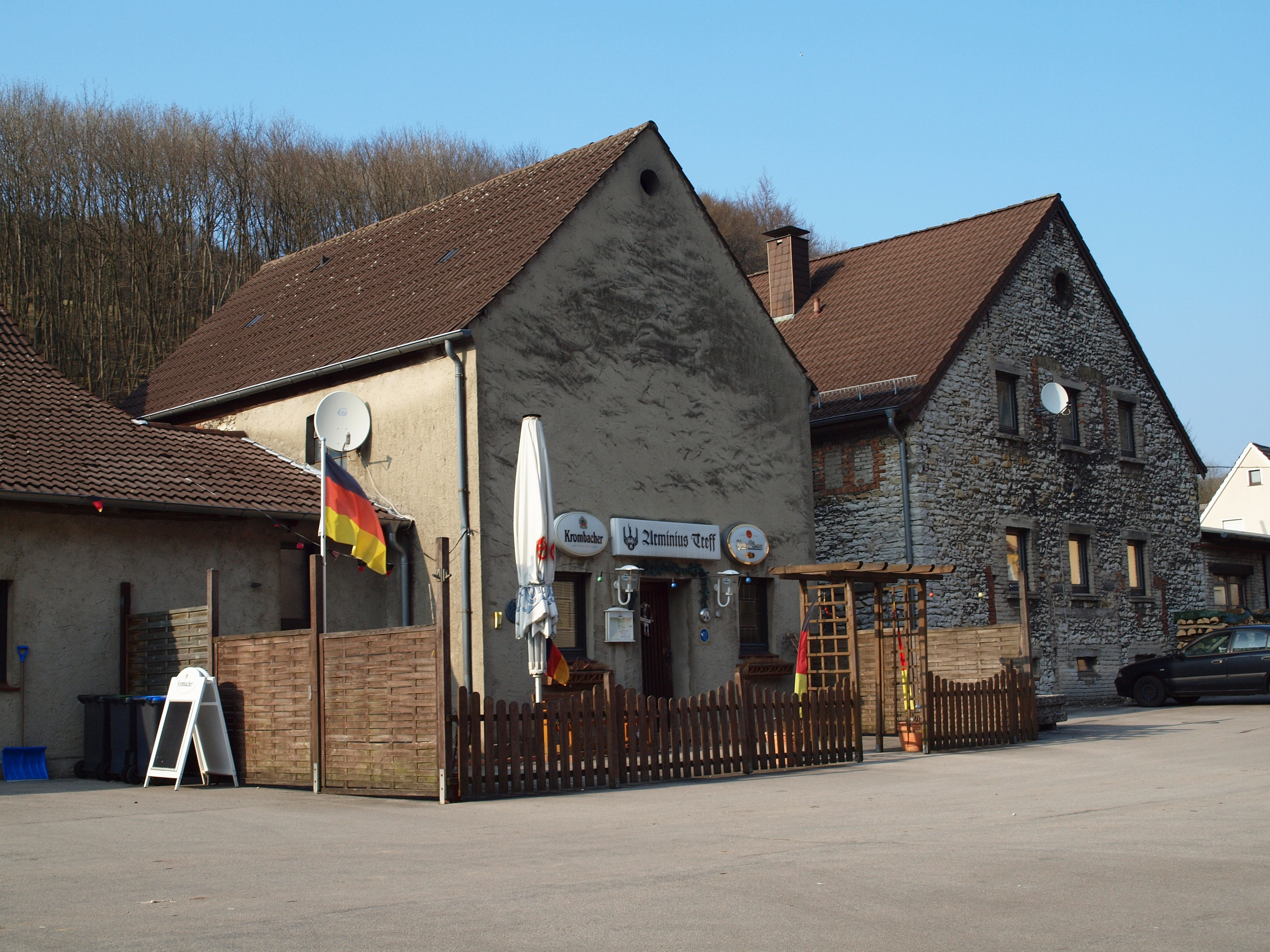 Former brewery, today inn Arminius Treff, in Kohlstädt